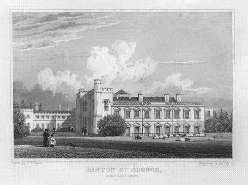 Old Print of Hinton Hall, Somerset